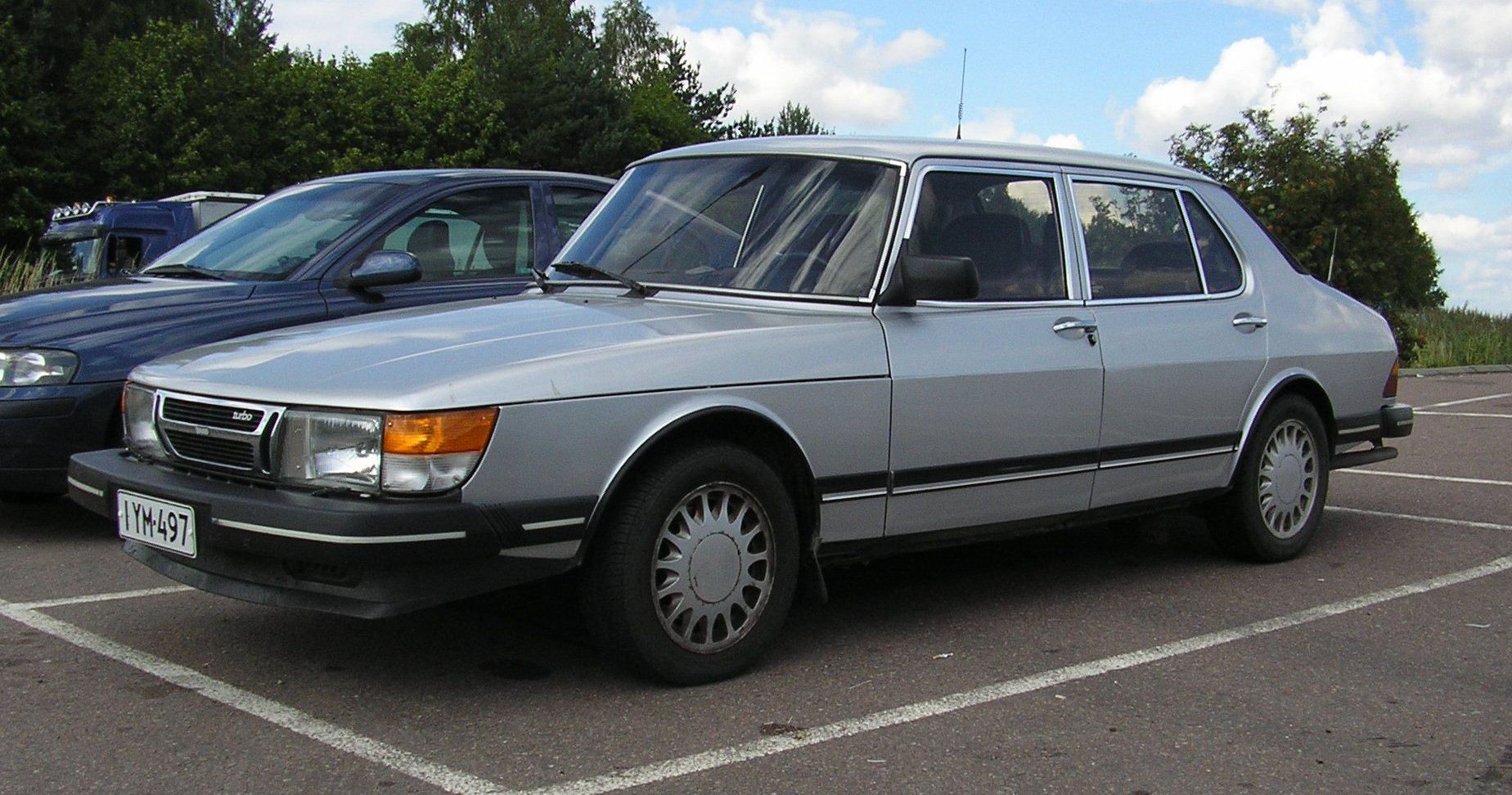 A 1985 SAAB 900CD spotted on a parking in Mantorp on the way from Stockholm to Ljungbyhed for the International SAAB Club Meeting 2006.